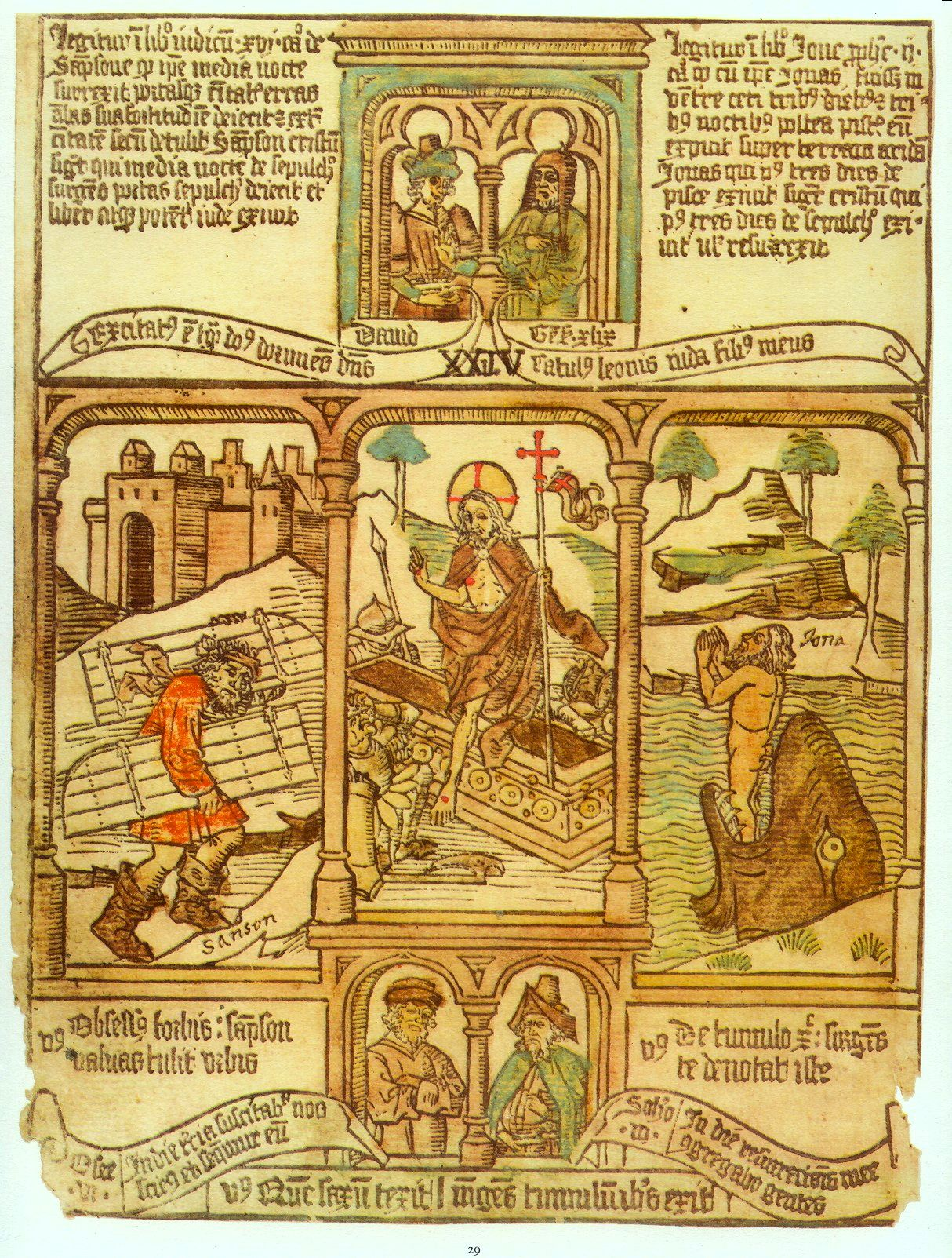 The resurrection page of the 'Biblia pauperum' of Esztergom (Hungary).